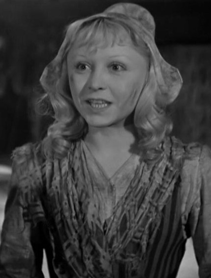 Yanina Zheymo as Cinderella in Cinderella (1947)